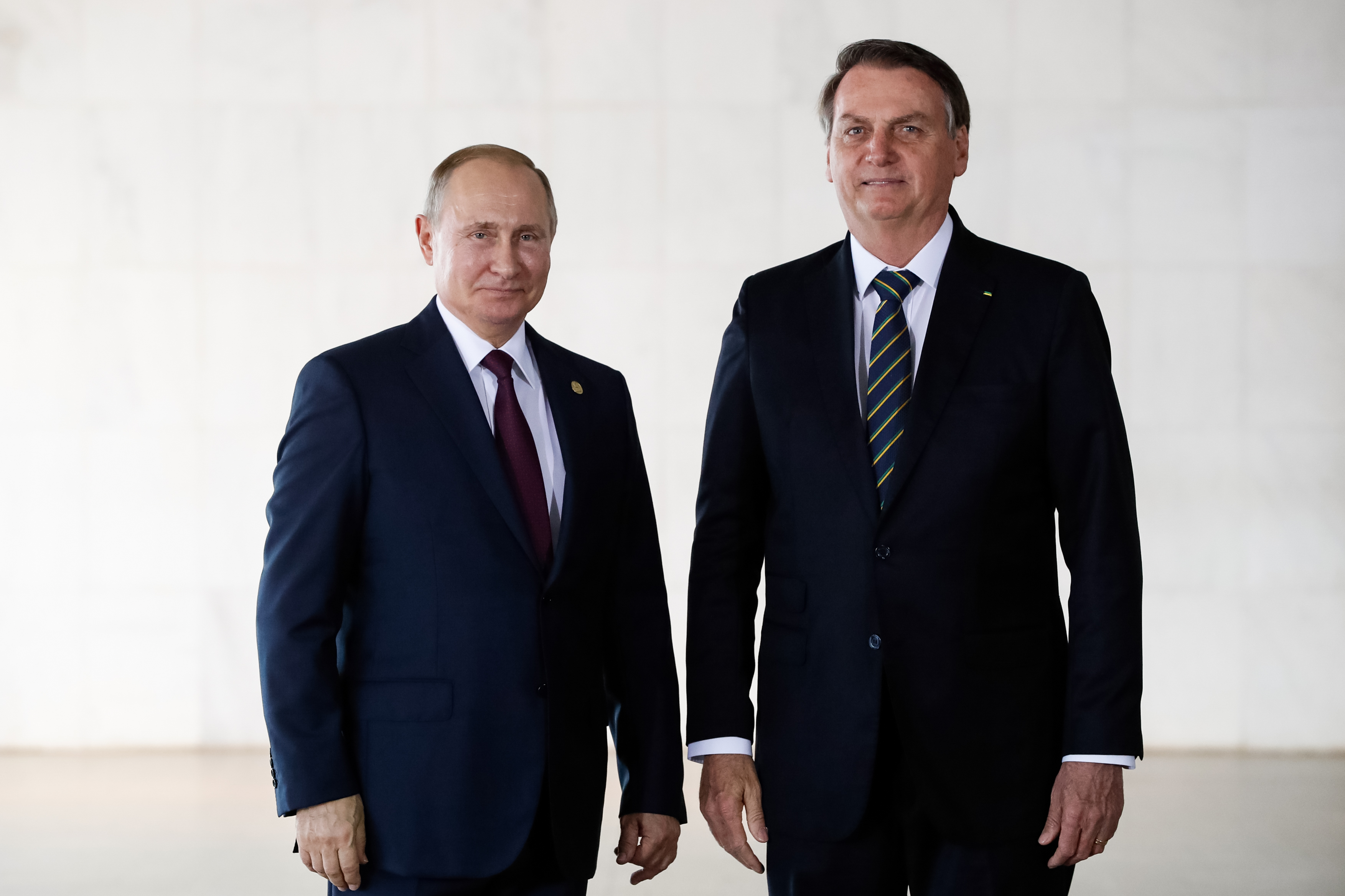 (Brasília - DF, 14/11/2019) Presidente da República, Jair Bolsonaro recebe o Presidente da Federação da Rússia, Vladimir Putin. Foto: Alan Santos/PR